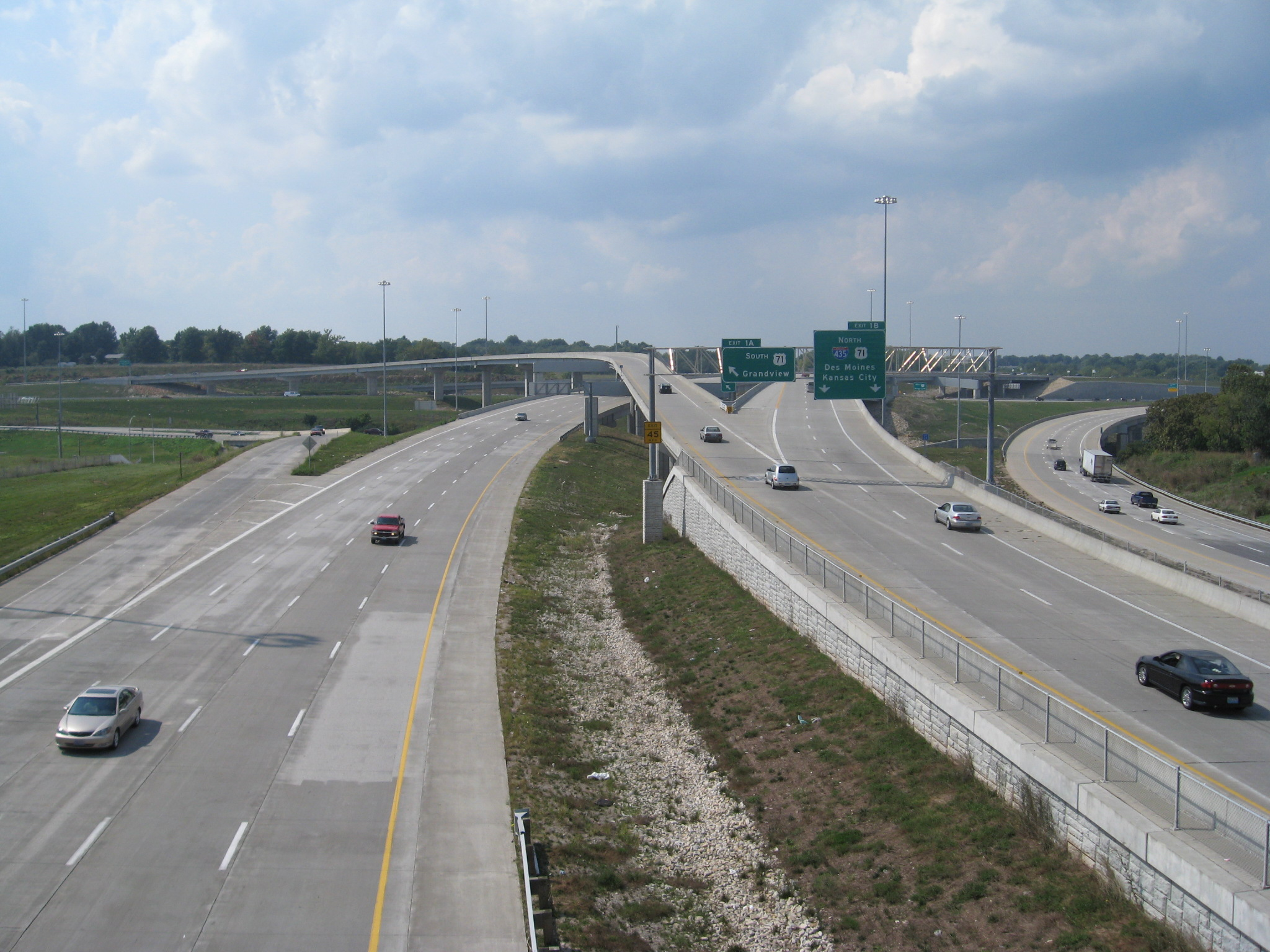 The Grandview Triangle (officially the 3-Trails Crossing Memorial Highway) in Kansas City, Missouri.